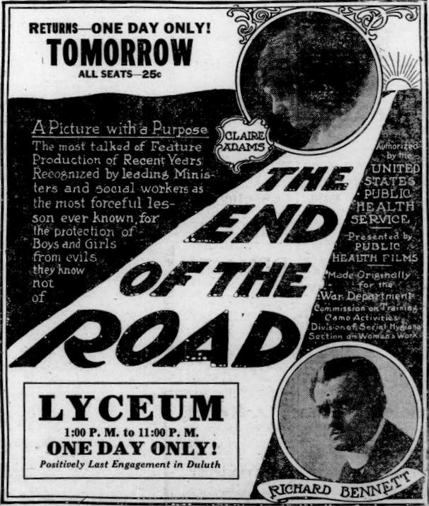 Newspaper ad for the American drama film The End of the Road (1919) with Richard Bennett and Claire Adams, on page 2 of the March 20, 1920 Duluth Herald. The film warns of the dangers of sexually transmissible disease through the tale of two young women. The ad notes that the film was being shown on one day only, with the date indicating that this would be on a Sunday.